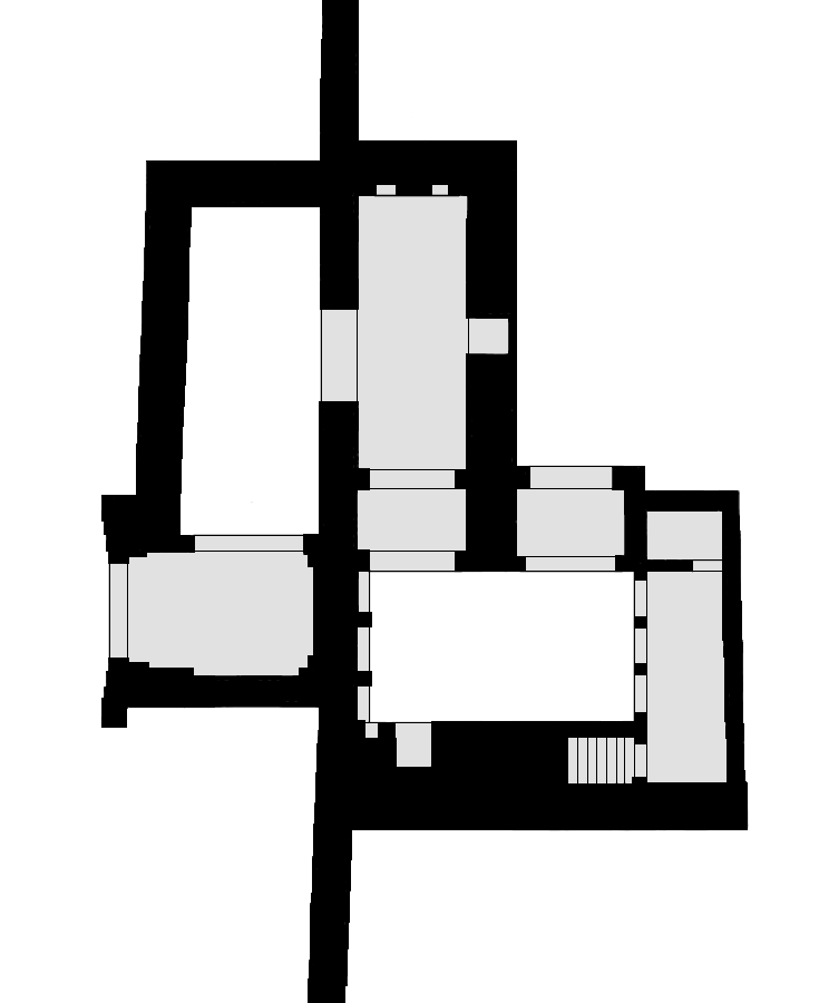 Floor plan of the Bab Debbagh gate in Marrakesh as it is seen today. The image is based on the floor plan(s) published in Allain & Deverdun (1957, "Les portes anciennes de Marrakech) and in Wilbaux (2001, "La médina de Marrakech"), while also consulting Google Earth satellite imagery to check some details.